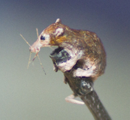 Cropped image of taxon in file name